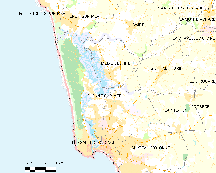 Map of French municipality Olonne-sur-Mer